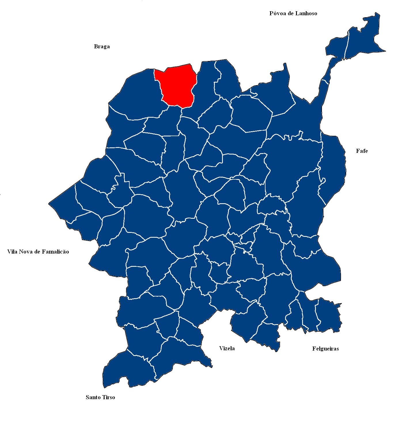 Map of Santa Leocádia de Briteiros parish, Guimarães Municipality, Portugal